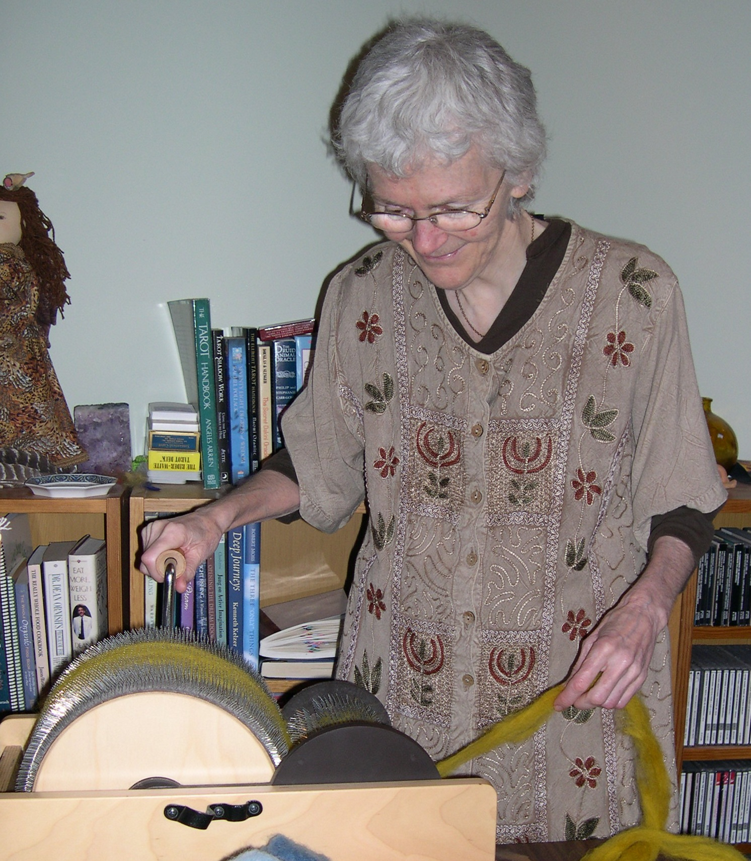 Heather Apple, demonstrating carding, Sunshine Coast Fibreshed and Sunshine Coast Spinners and Weavers Guild. The green wool was dyed with marigold (Tagetes patula) and indigo (Indigofera tinctoria).